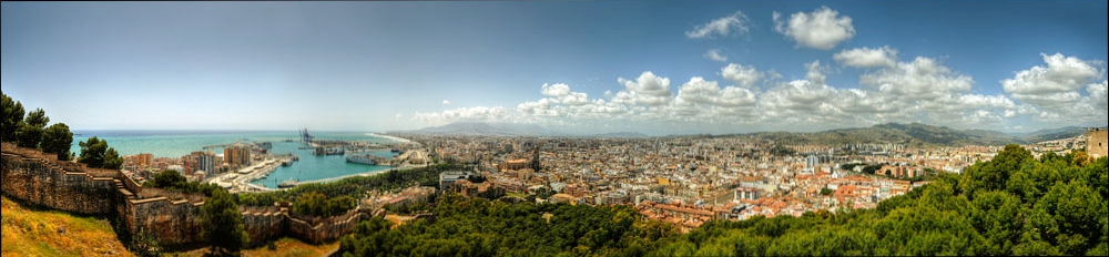 Málaga, Spain.